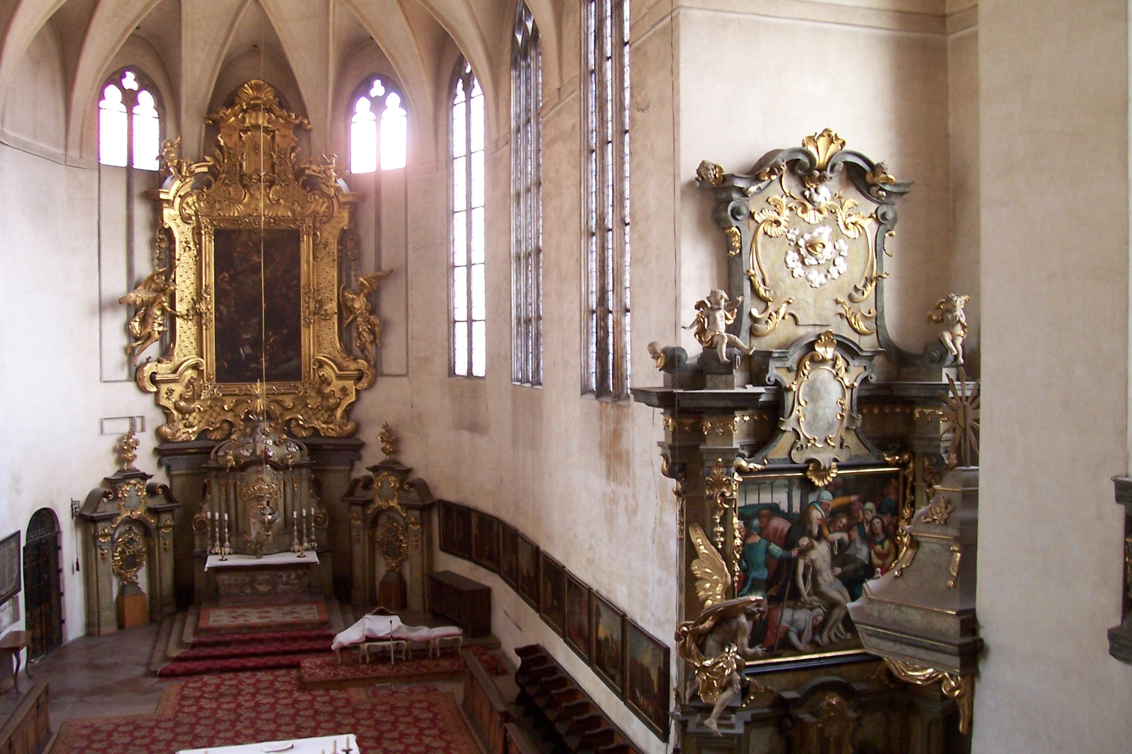 The interior of All Saints Church at Prague Castle.